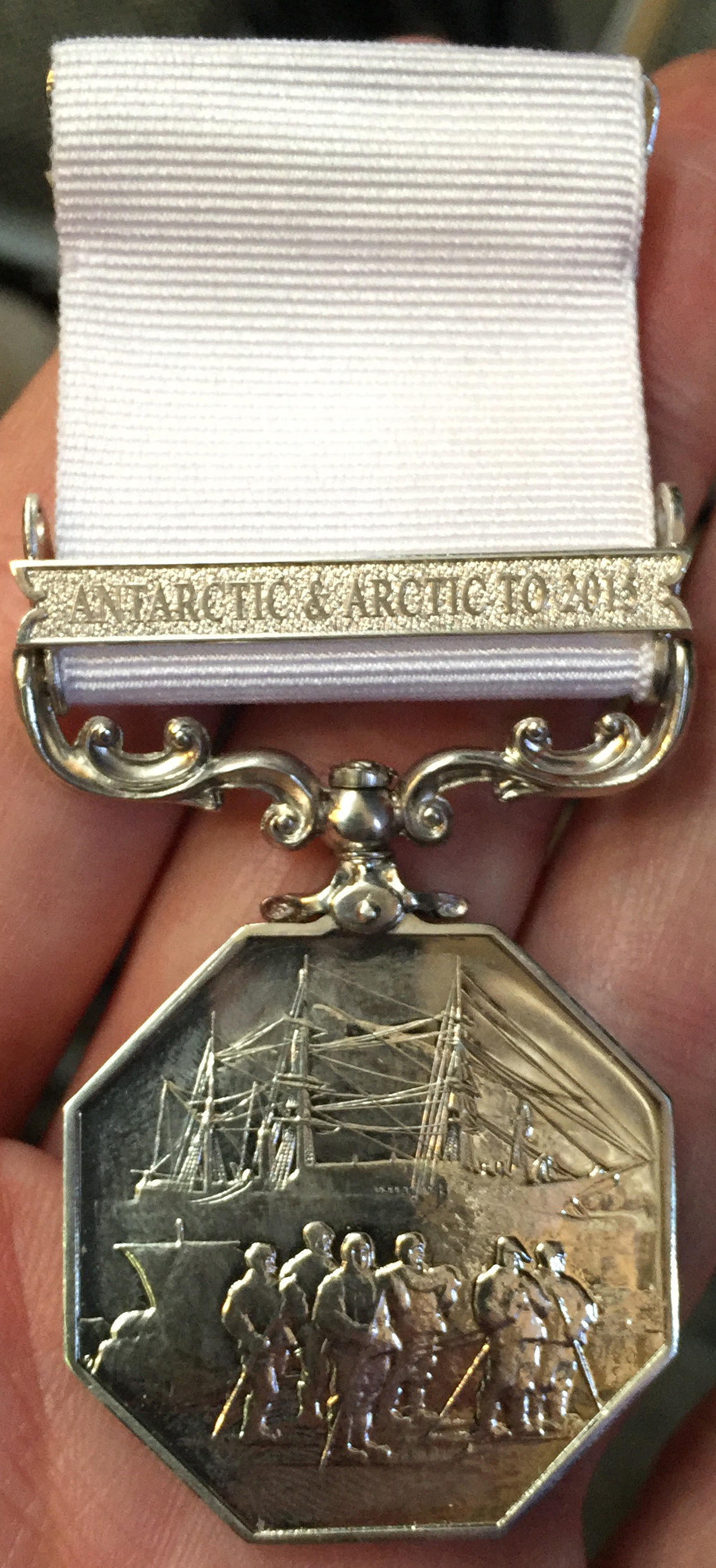 This is a photograph of a UK Polar Medal awarded in 2015